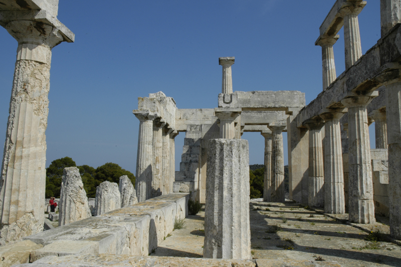 View east from the opisthodomos of the Temple of Aphaia II showing the colonnades of the cella. J. M. Harrington, personal digital image